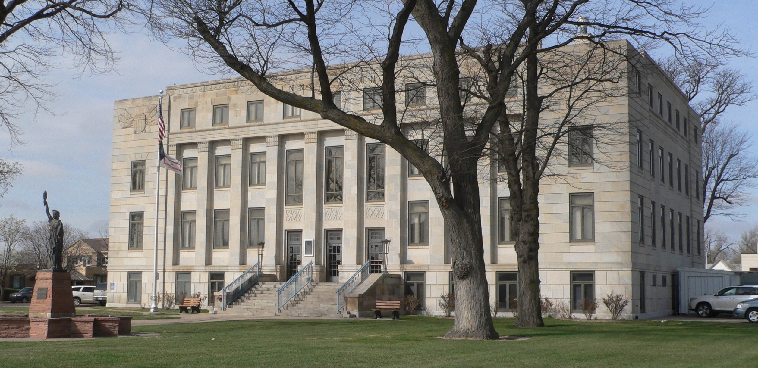 Finney County courthouse in Garden City, Kansas; seen from the northeast.